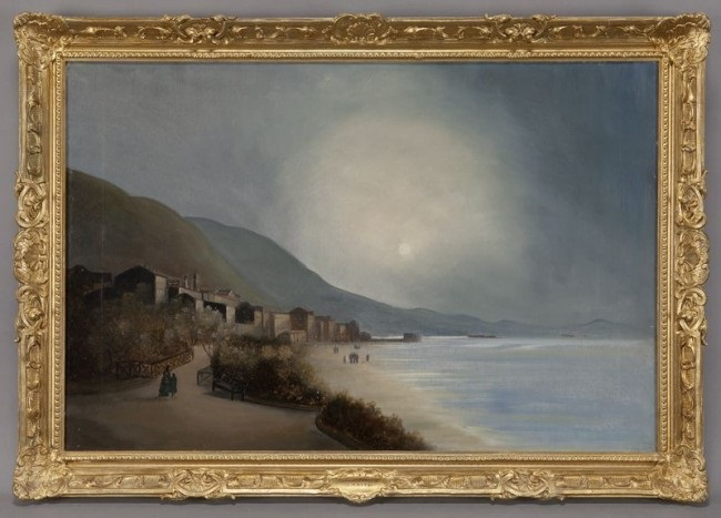 Summer Evening, oil on canvas